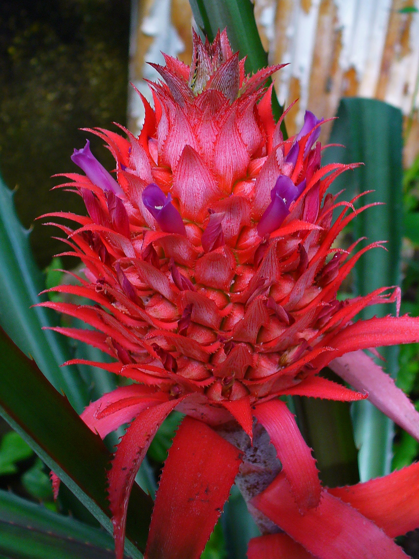 Ananas comosus, Bromeliaceae, Pineapple, inflorescence; Botanical Garden KIT, Karlsruhe, Germany. The plant is used in homeopathy as remedy: Ananas sativus (Anana-c.)